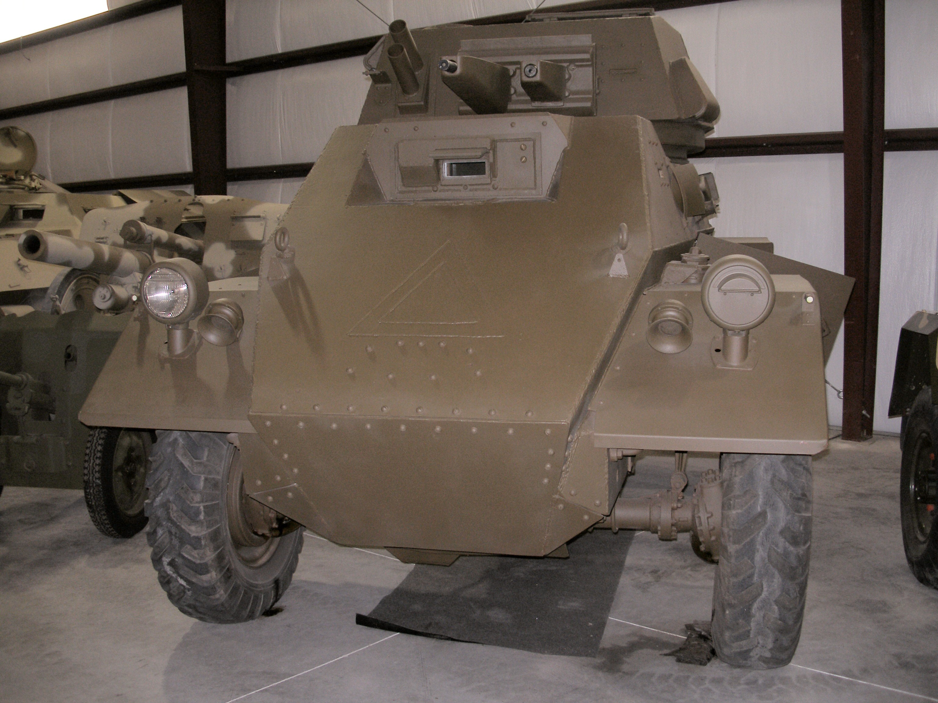 Fox Armored Car on display at the Karl Smith collection in Tooele, Utah